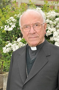 Luis Teodorico Stöckler, Bishop Emeritus of the Diocese of Quilmes